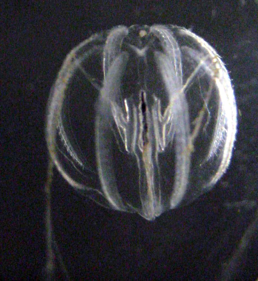 A sea gooseberry with one tentacle extended for feeding.